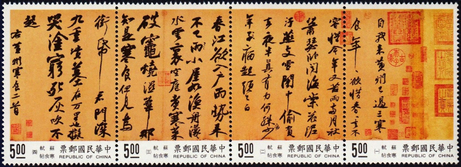 Stamps of Taiwan. Apr 6, 1995. Calligraphy by Su Shi: detail of File:寒食帖.jpg.